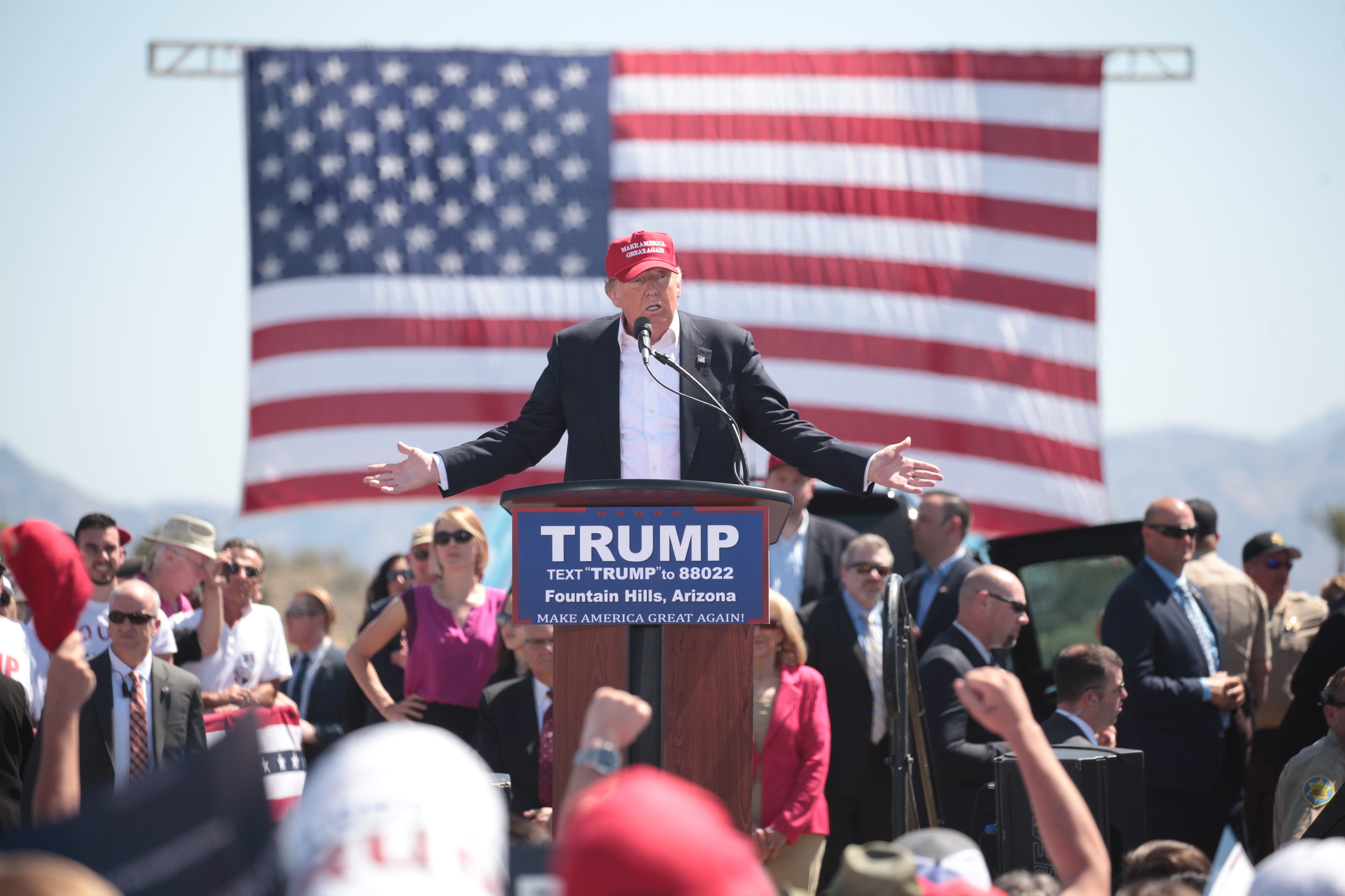 Donald Trump speaks at a campaign event in Fountain Hills, Arizona, before the March 22 primary.